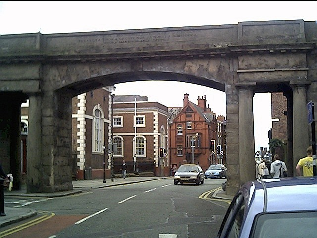 Northgate, Chester, Cheshire